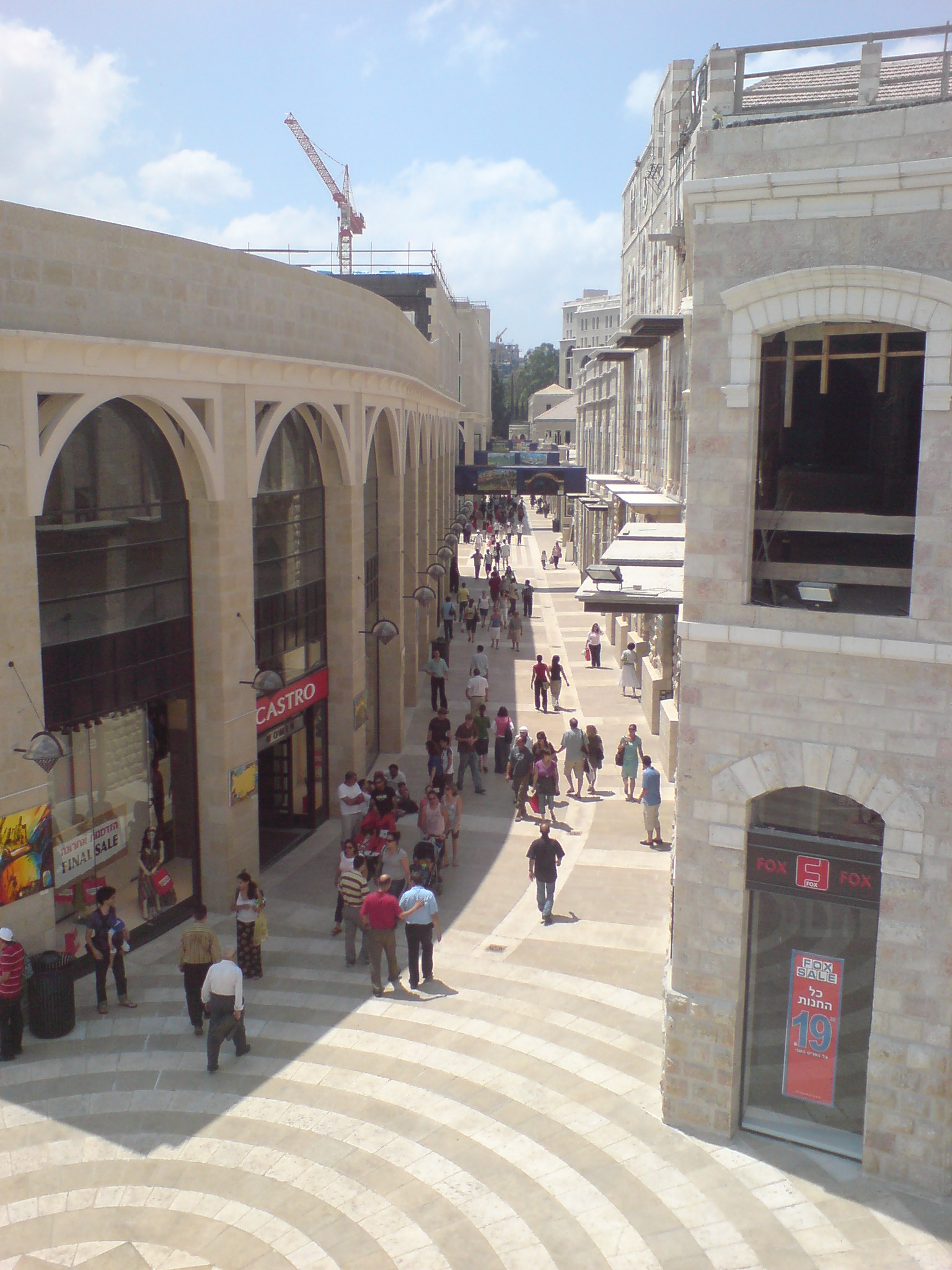 A view over Mamila's new shopping street.